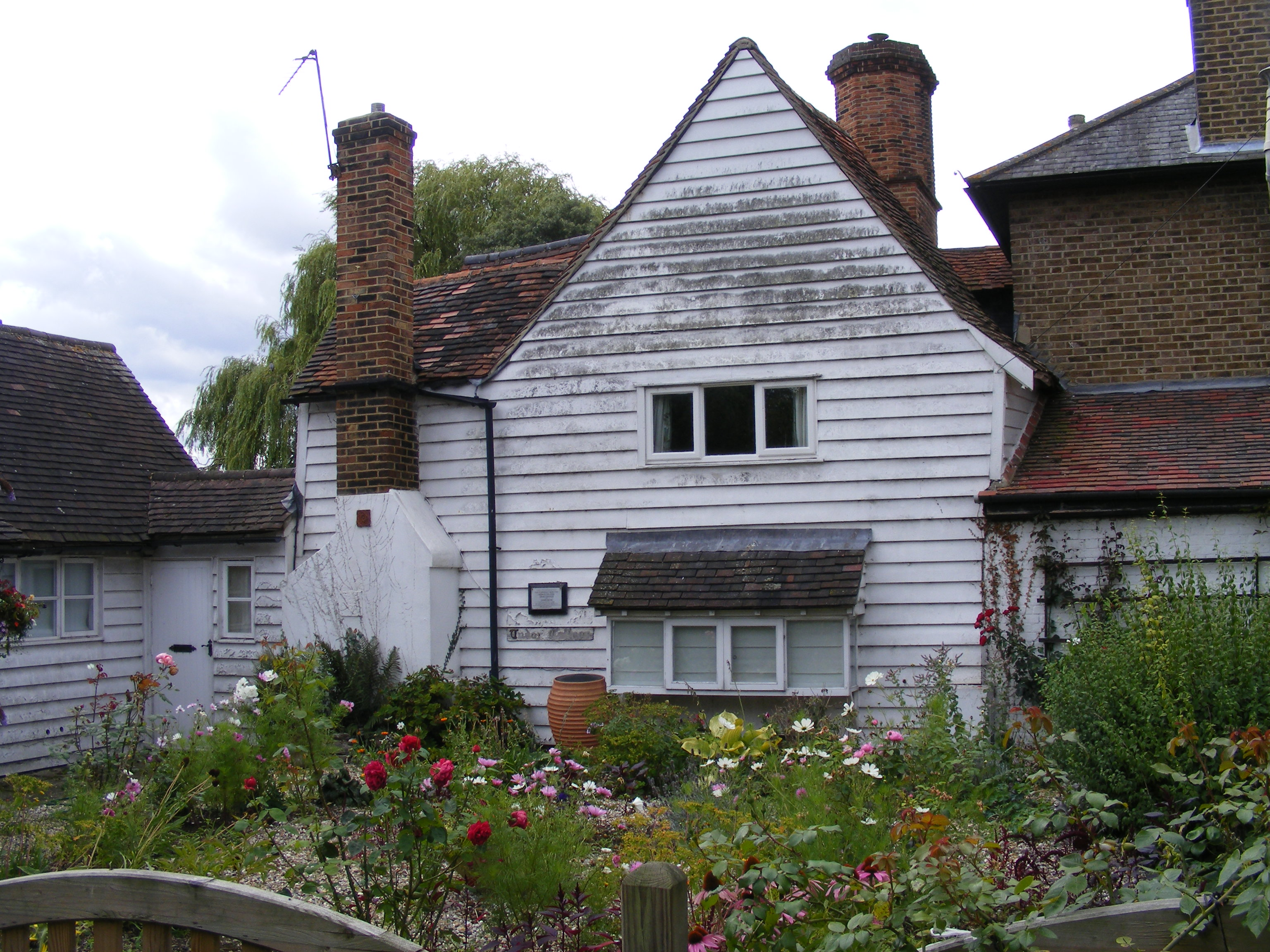 Cottage on which Tolpuddle Martyrs plaque apears